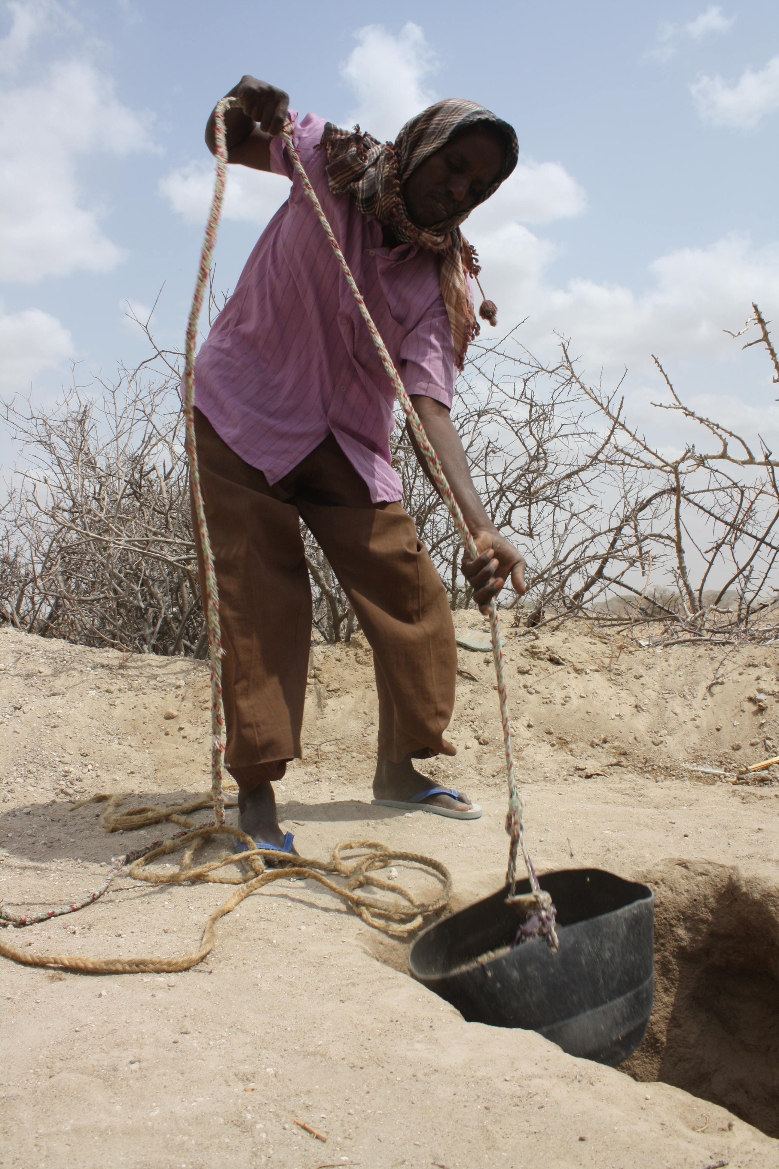 Oxfam is running an emergency cash for work programme in Wajir helping families who have lost all their income due to drought. People decide what project they want to implement. In this village of Dilmanyale most have chosen to build latrines. Hussein Hassan (42) is a member of the local relief committee and helps prepare the hole for the building of the latrine. The village has been suffering from disease as a result of poor sanitation and this new latrine will help mitigate against diseases such as diarrhoea. The cash that the family have already received is providing them with basic essentials such as food and water. 90 families are benefitting from the cash for work programme in this village alone.